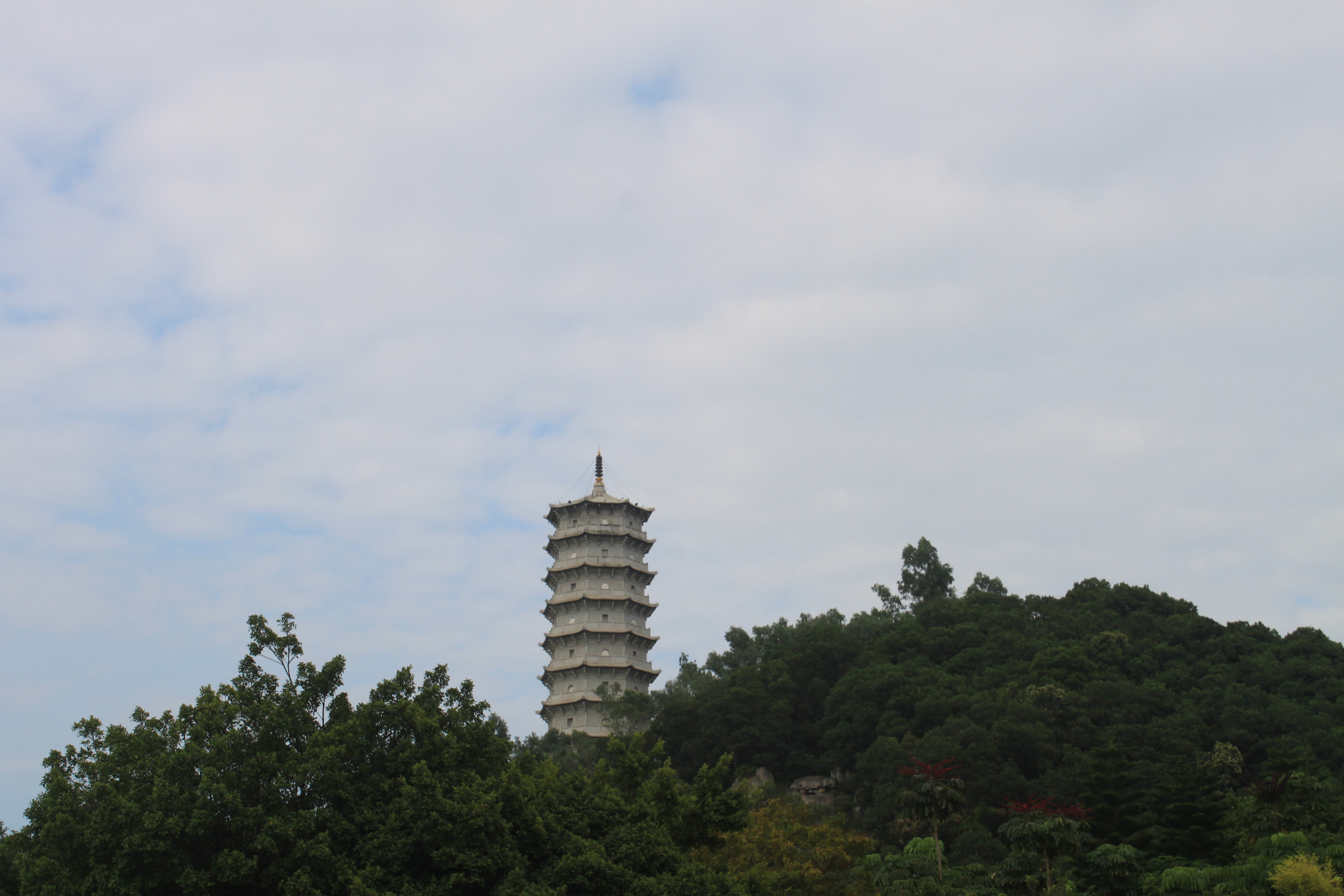 Blessing Pagoda of Shenzhen International Garden and Flower Expo Park. The 52 m (171 ft) Blessing Pagoda has the brick and wood structure with nine stories and eight sides.